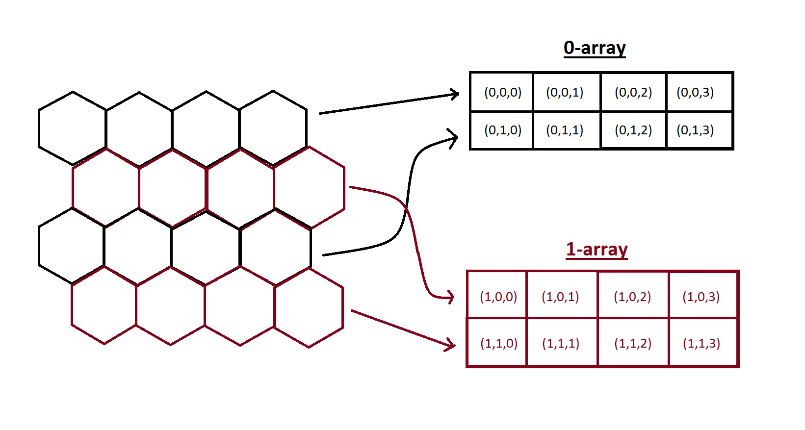 The figure illustrates representation of a hexagonally sampled data in the form of rectangular arrays using ASA coordinate system.